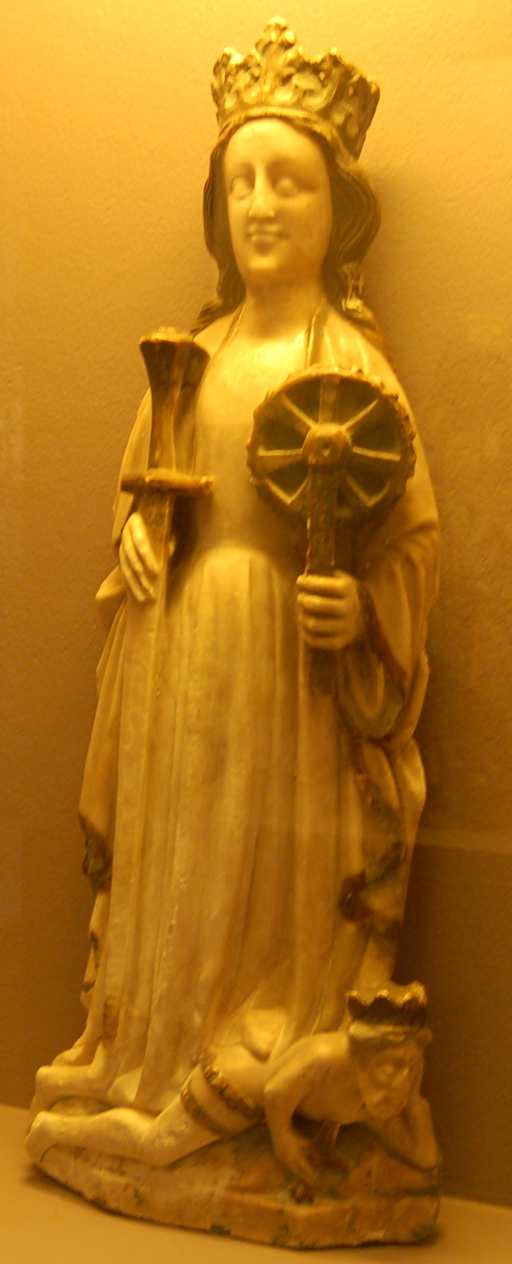 Saint Catherine of Alexandria, also known as Saint Catherine of the Wheel and The Great Martyr Saint Catherine. In Ibestad old church, Norway, before 1881, now at Tromsø museum. Statue from 15th century - English work.